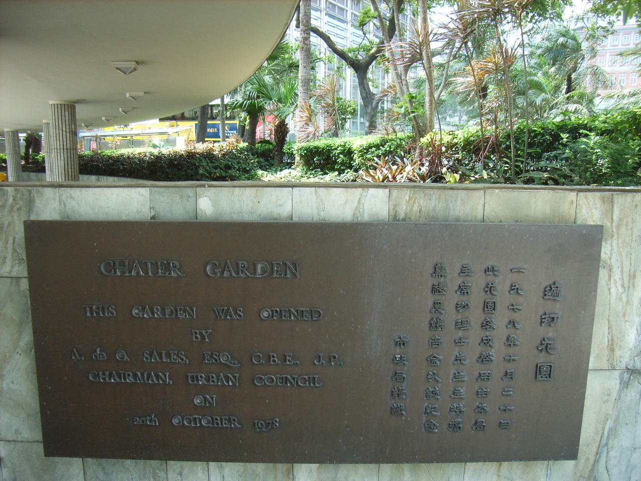 香港zh:遮打花園 On Oct-20-1978, the Chater Garden was opened.